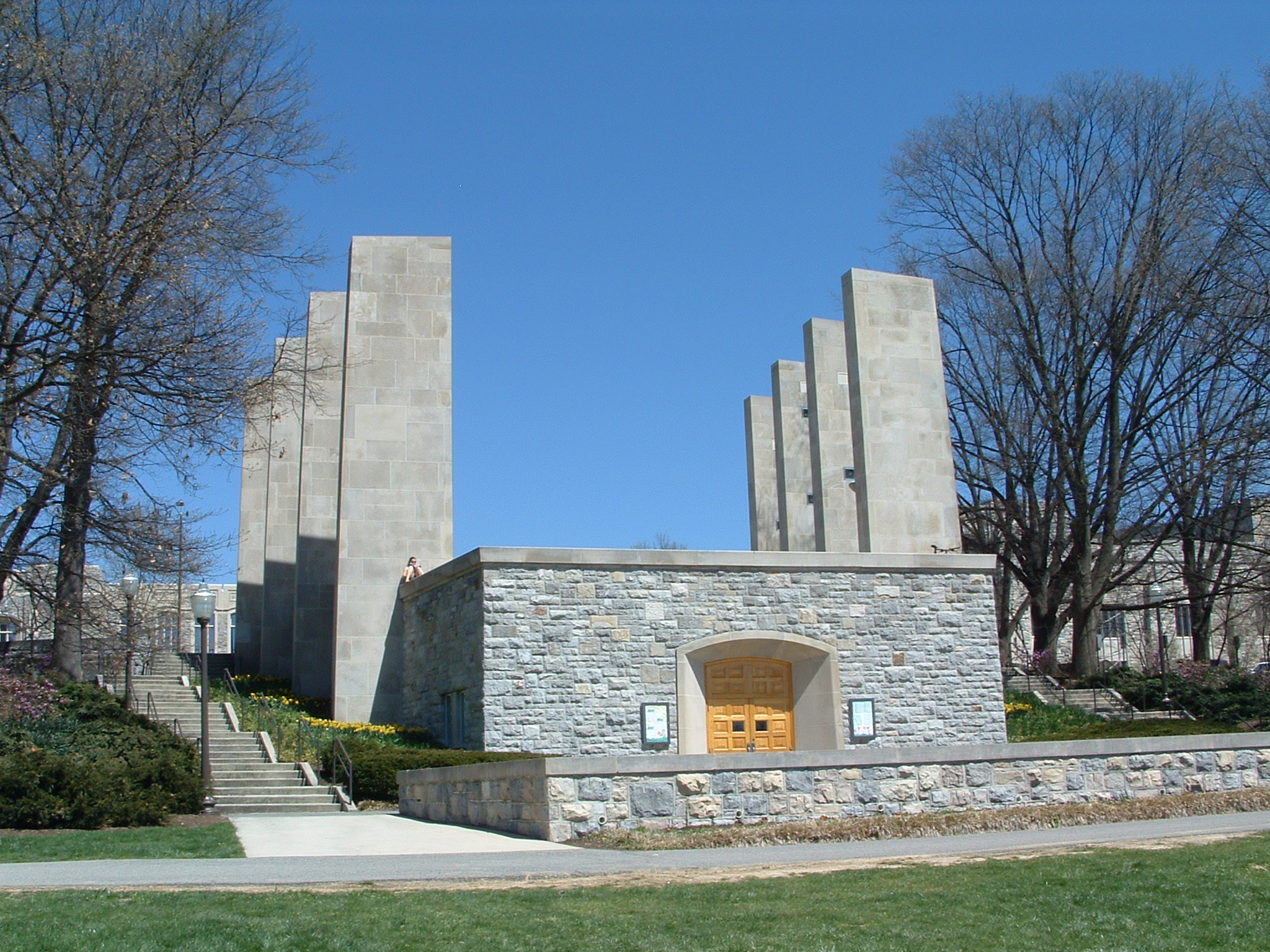 Virginia Tech's War Memorial Chapel taken from the drillfield